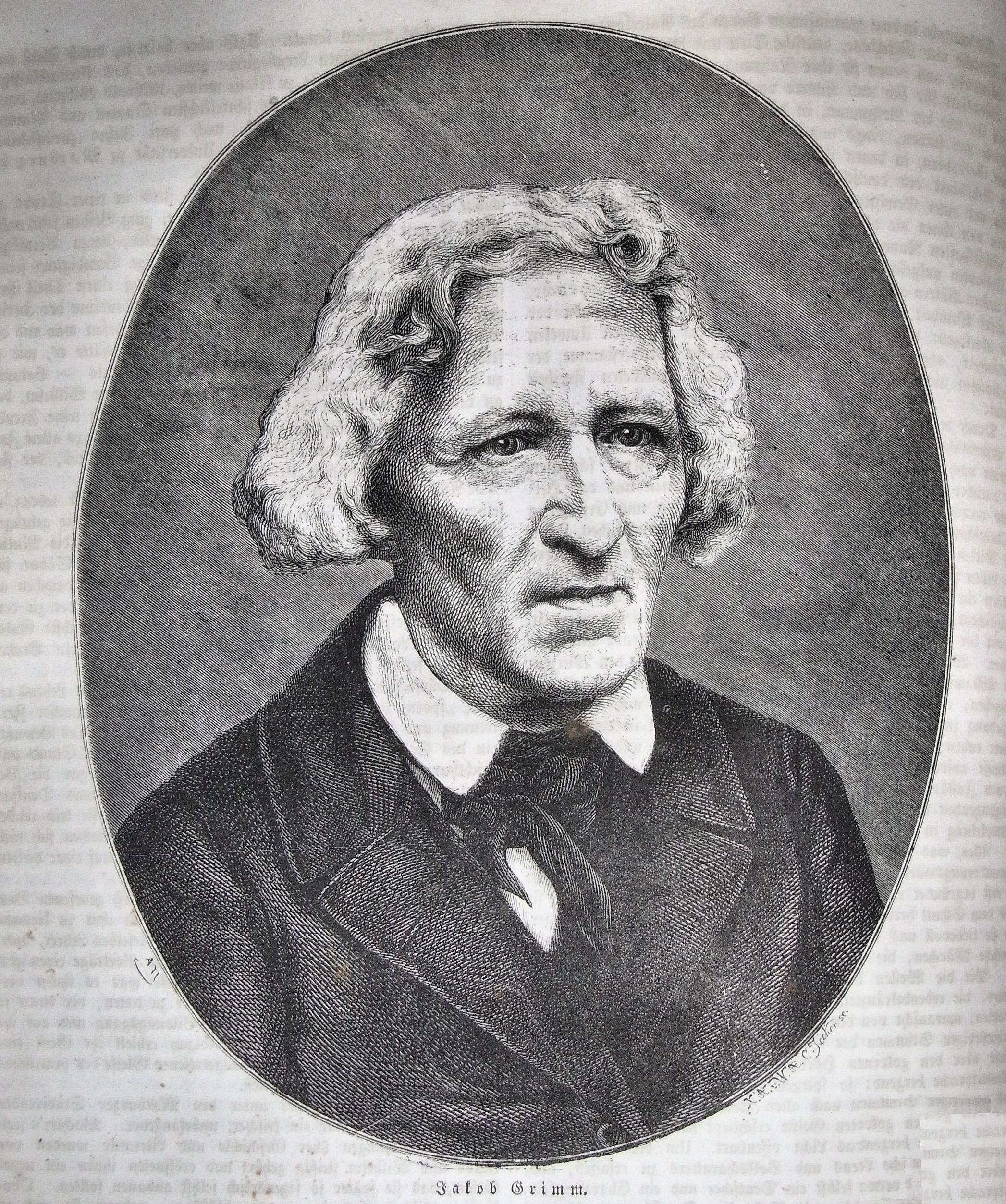 caption: "Jakob Grimm."